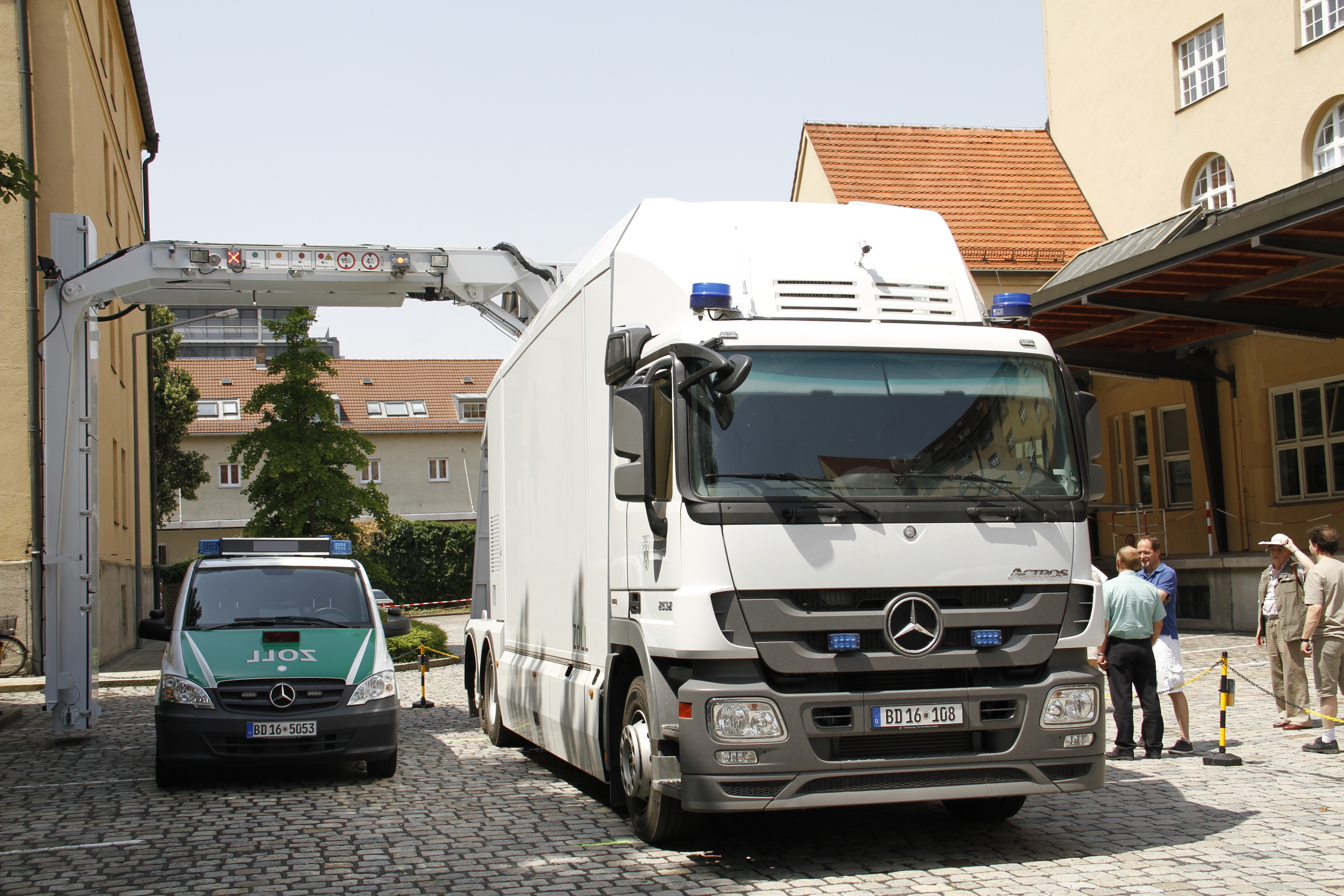 mobile x-ray unit to scan whole trucks and busses by the German Customs Service. Shown at Munich, 2012